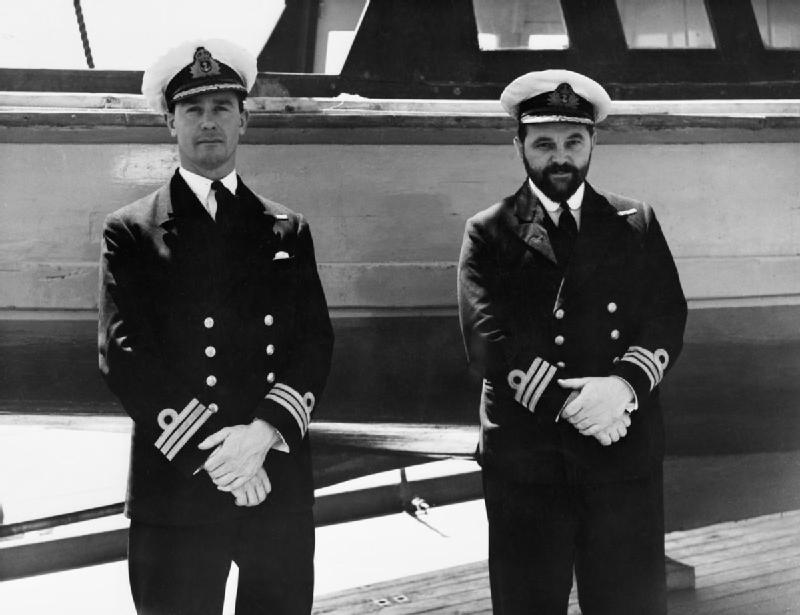 John Wallace Linton VC